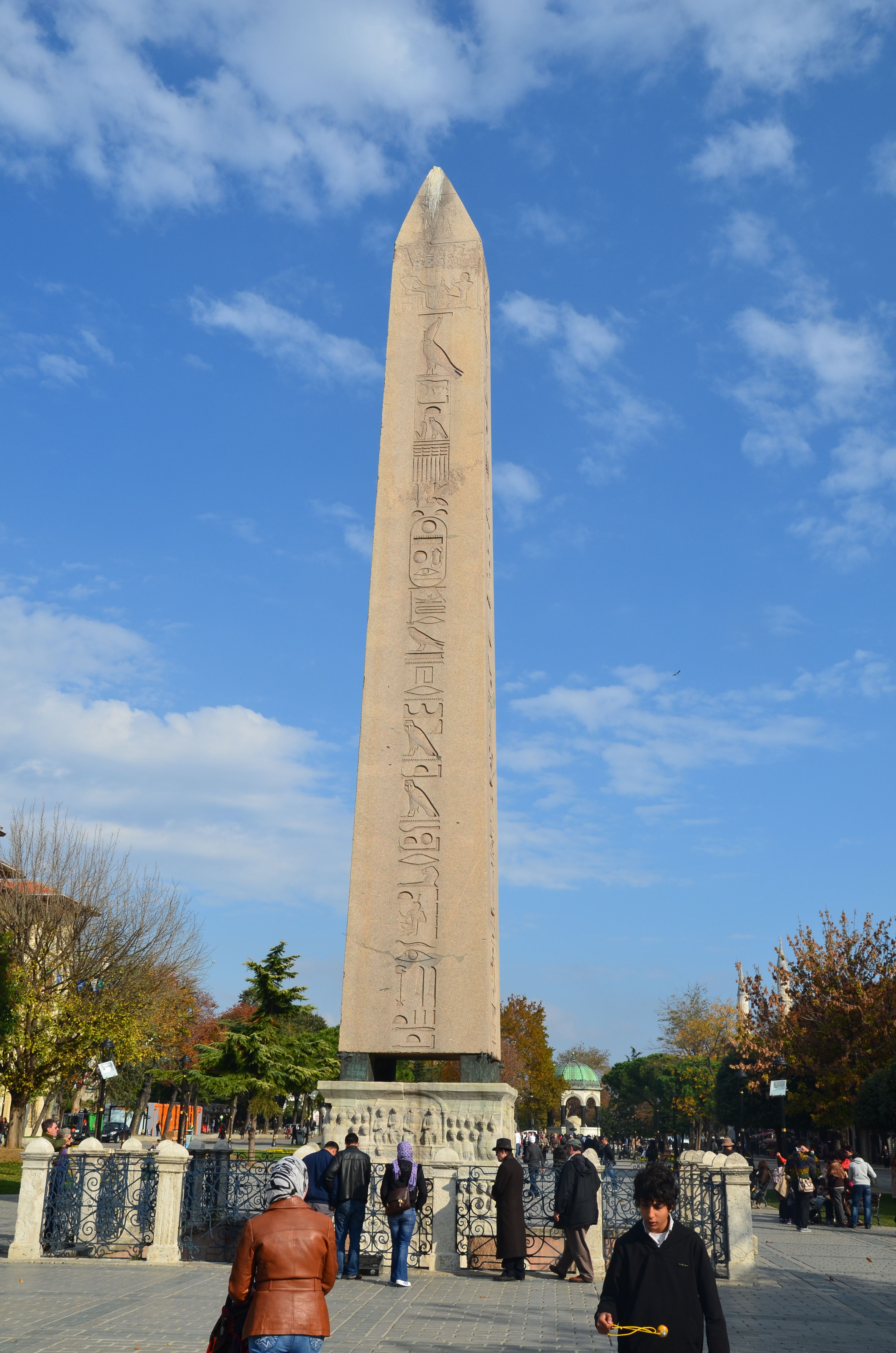 Obelisk of Tuthmosis III, in Square of Horses, Istanbul, Turkey